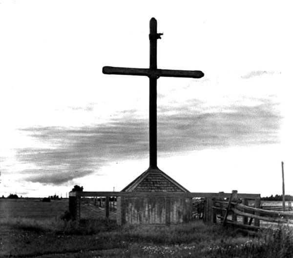 Memorial Cross “Croix de chemin,” 1936. Provincial Archives of New Brunswick number P93-KE-1.